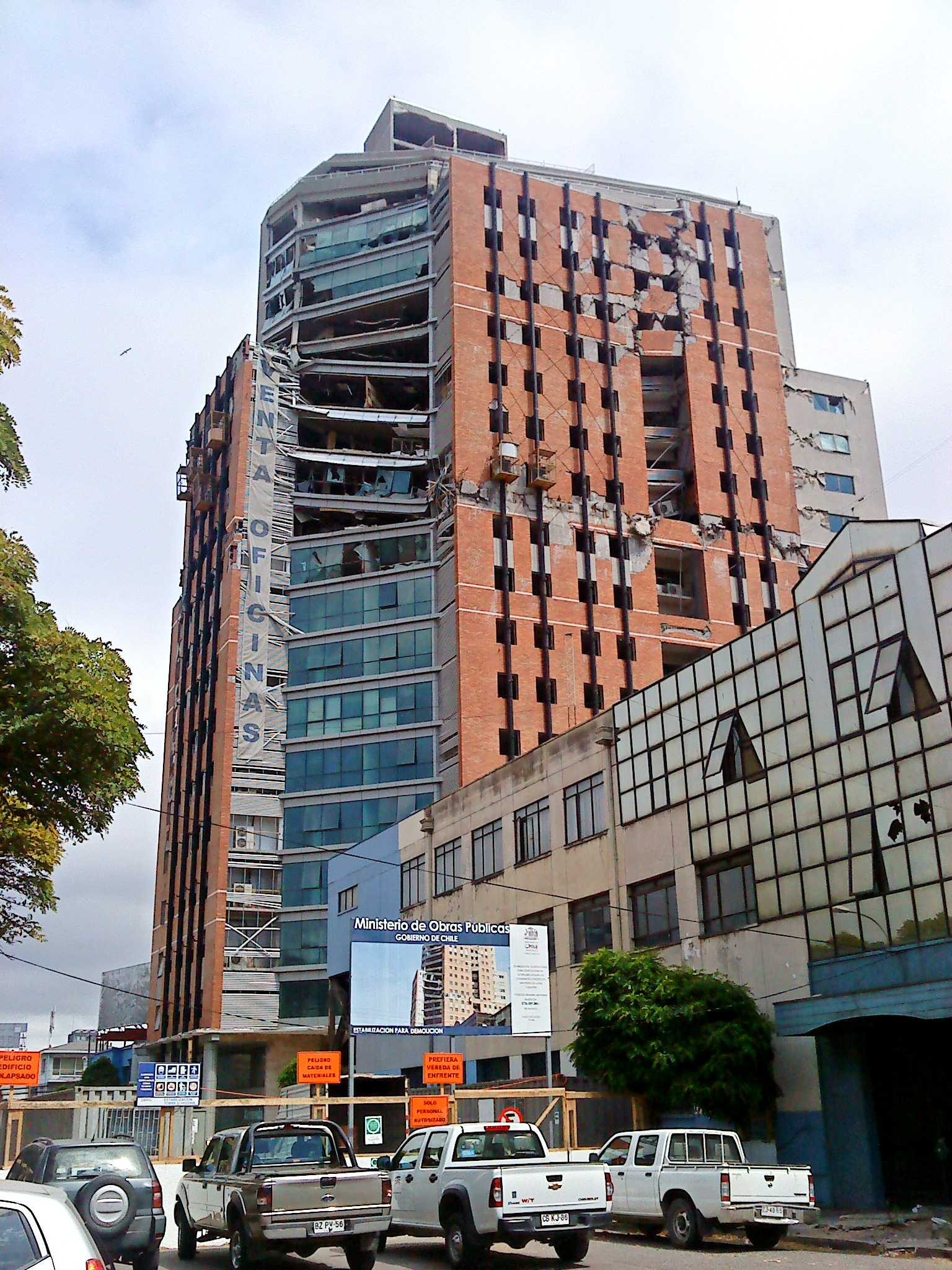 Repairs in Tower O'Higgins, Concepcion